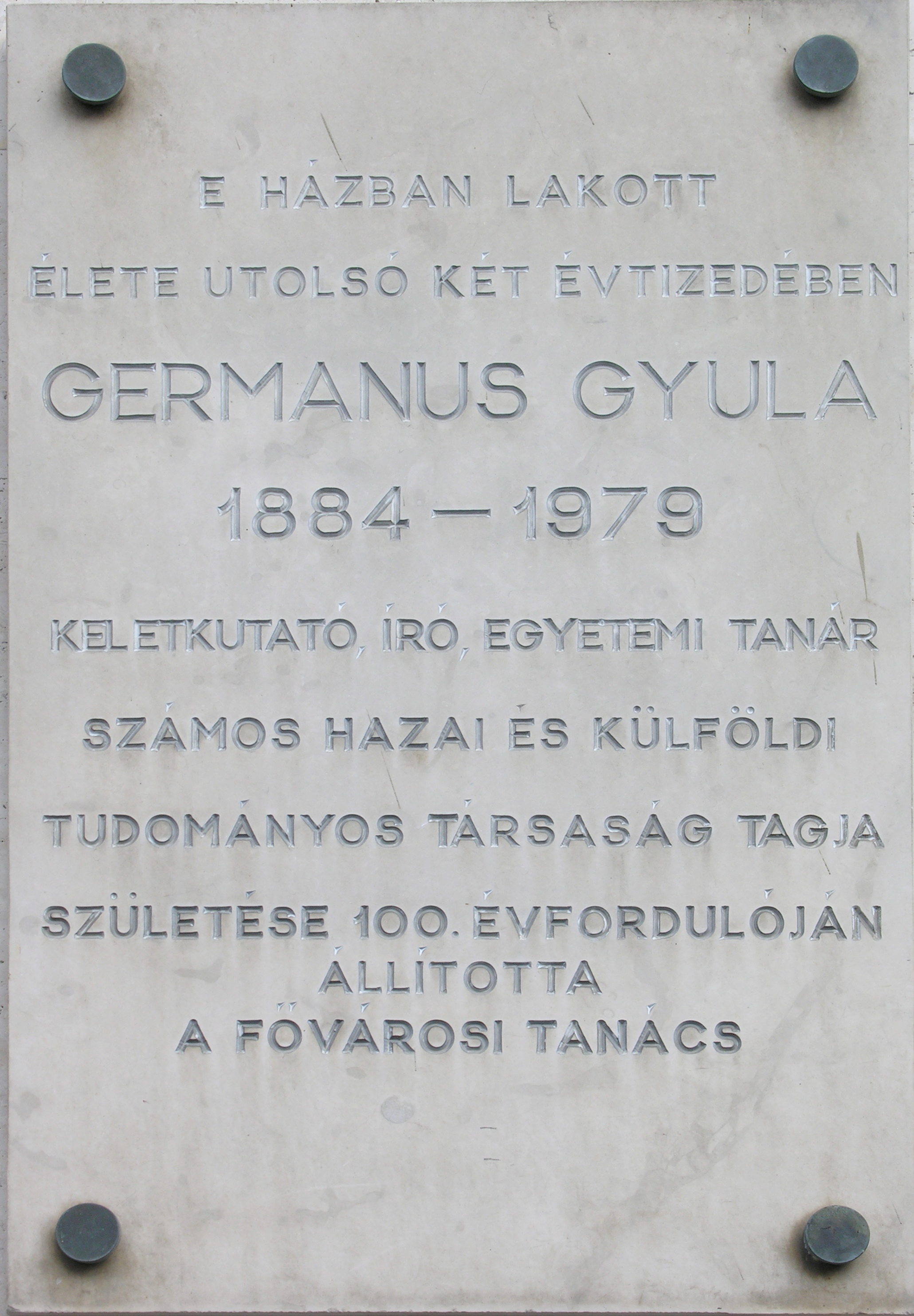 Commemorative plaque of Gyula Germanus, Budapest District V, Petőfi Square No 3-5